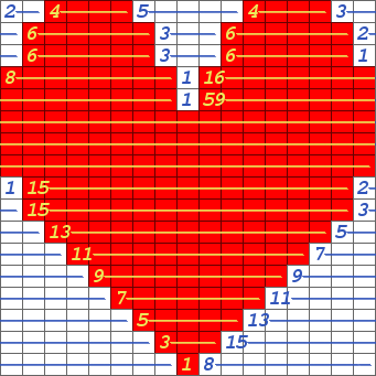 An illustration of Run-Length Encoding of an image.